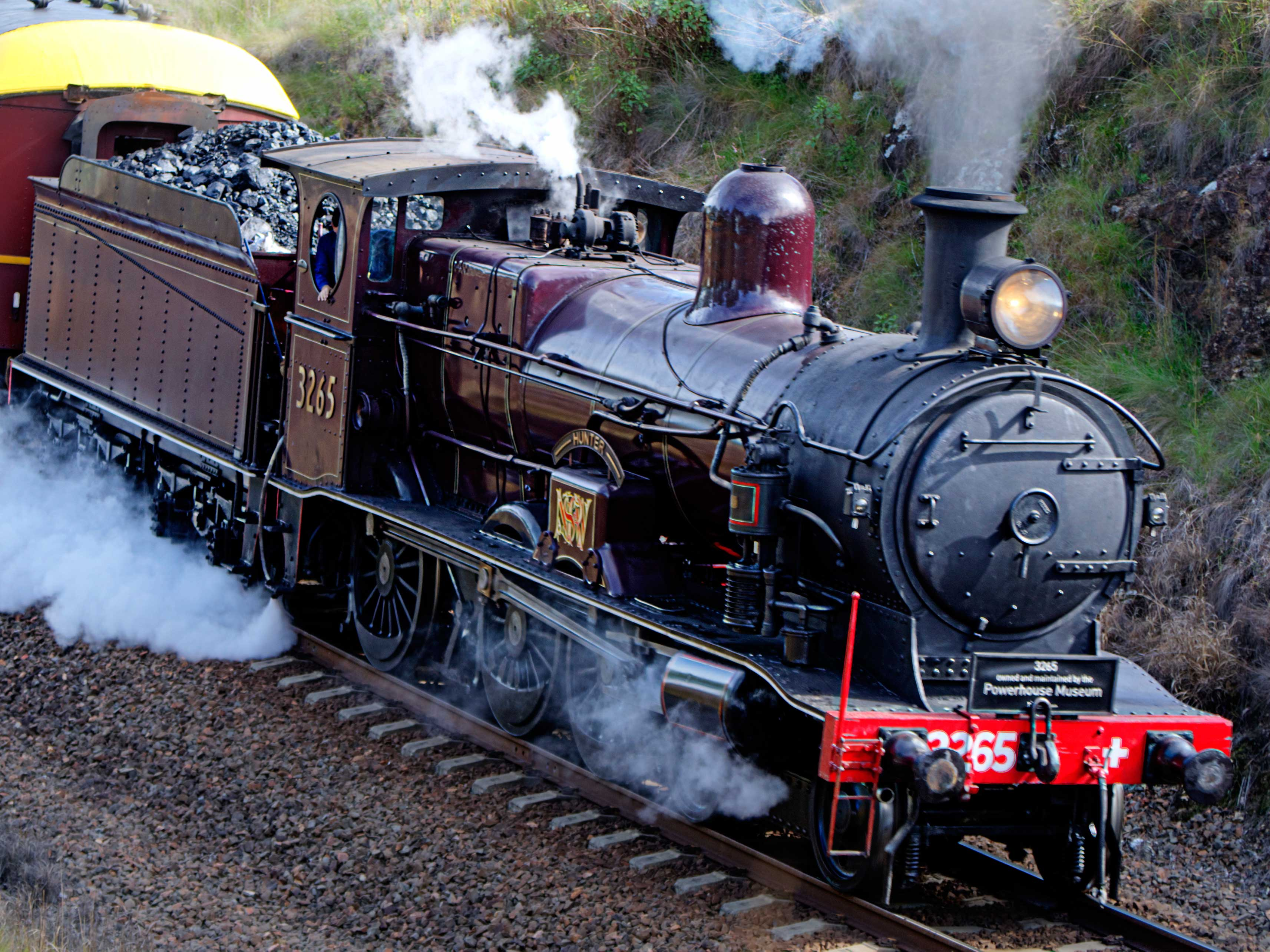 Powerhouse Museum Locomotive 3265 at Taree Railway Centenary 2013